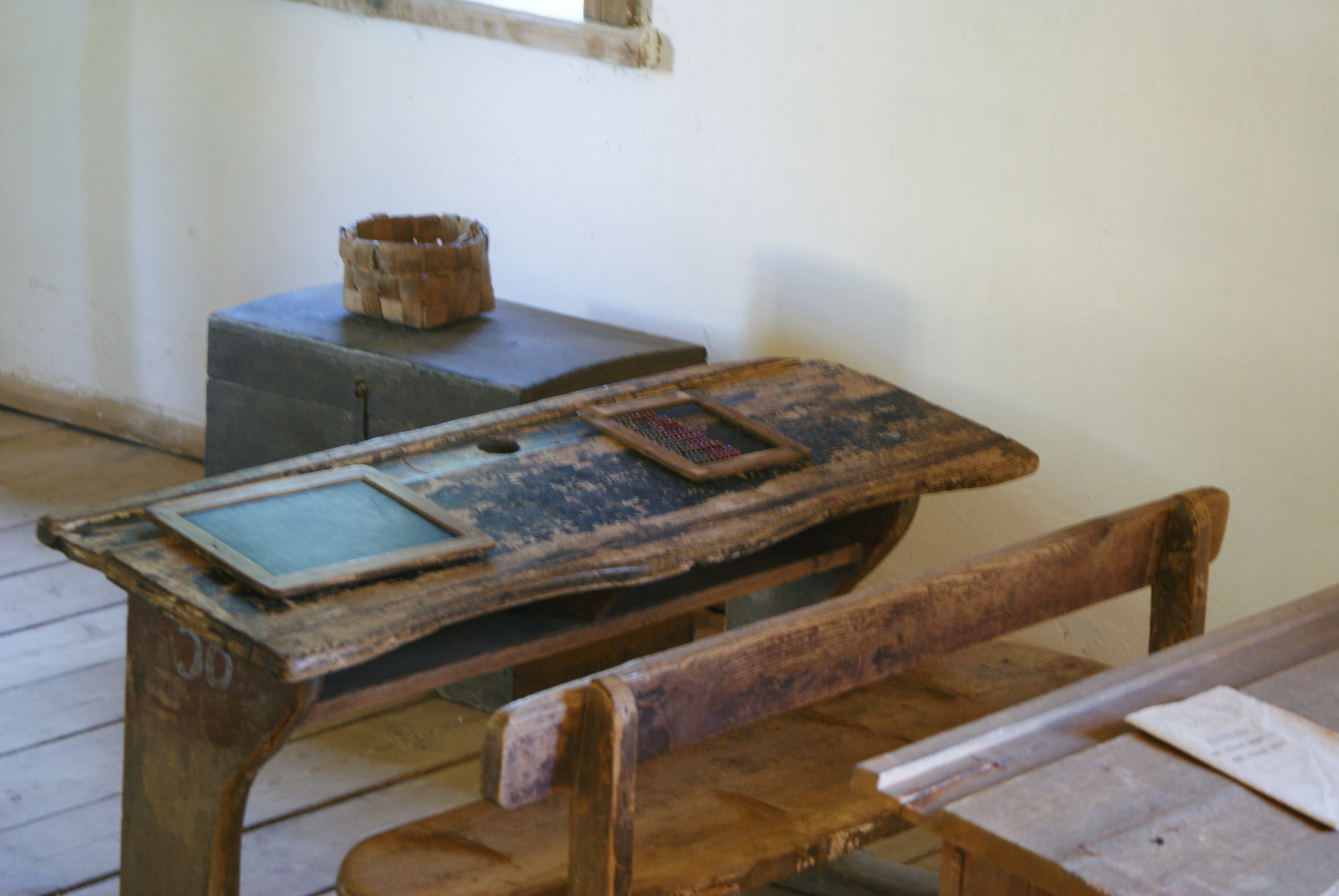 State museum of folk architecture and life, Belarus